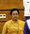 Su Su Lwin is a Burmese politician and current First Lady of Myanmar (Burma).